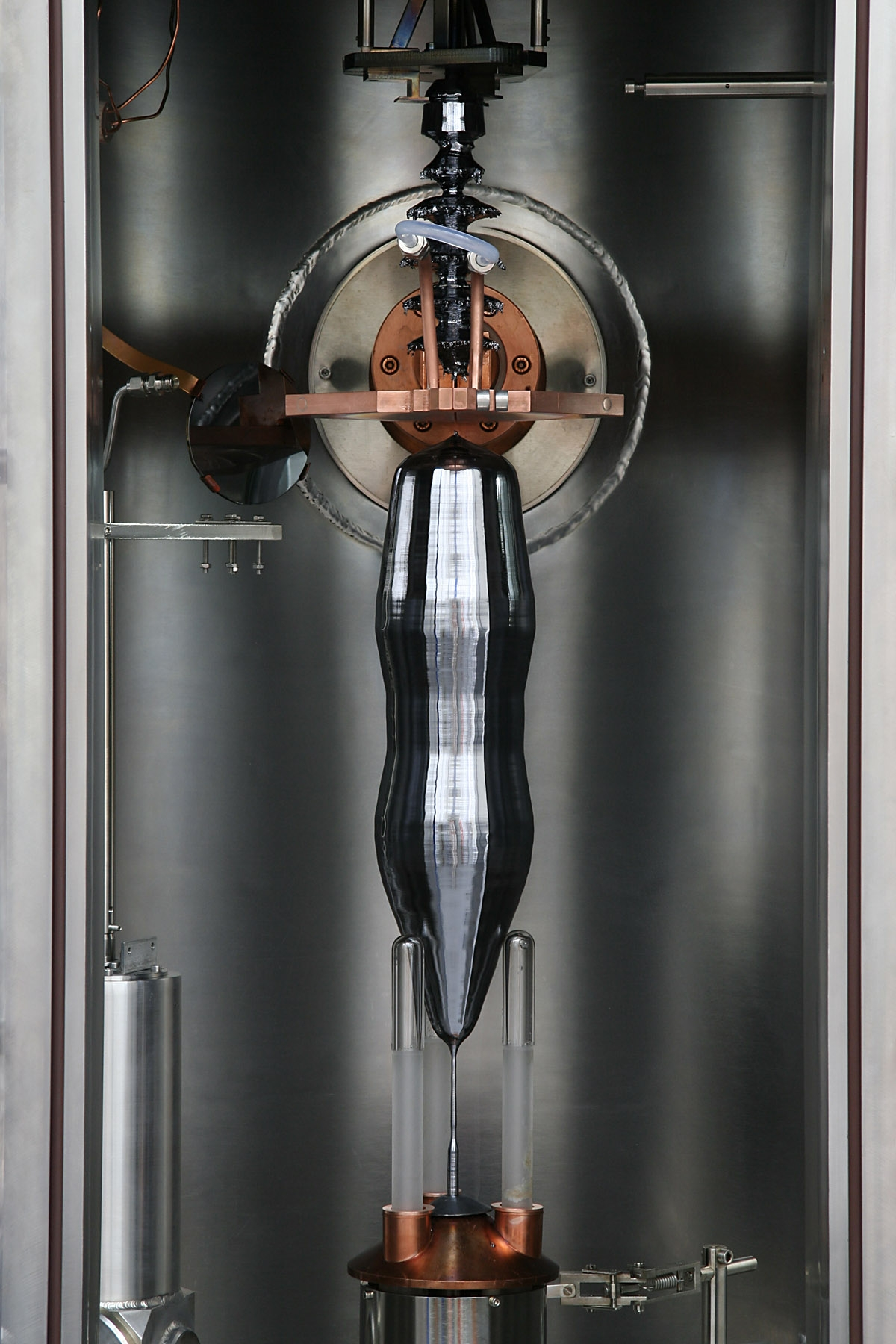 Avogadro Crystal (in the furnace)